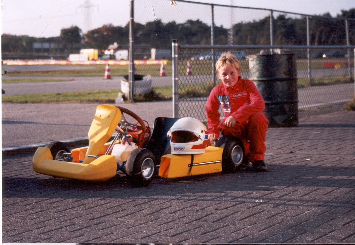 Race car driver Renger van der Zande in 1998 with his first go kart